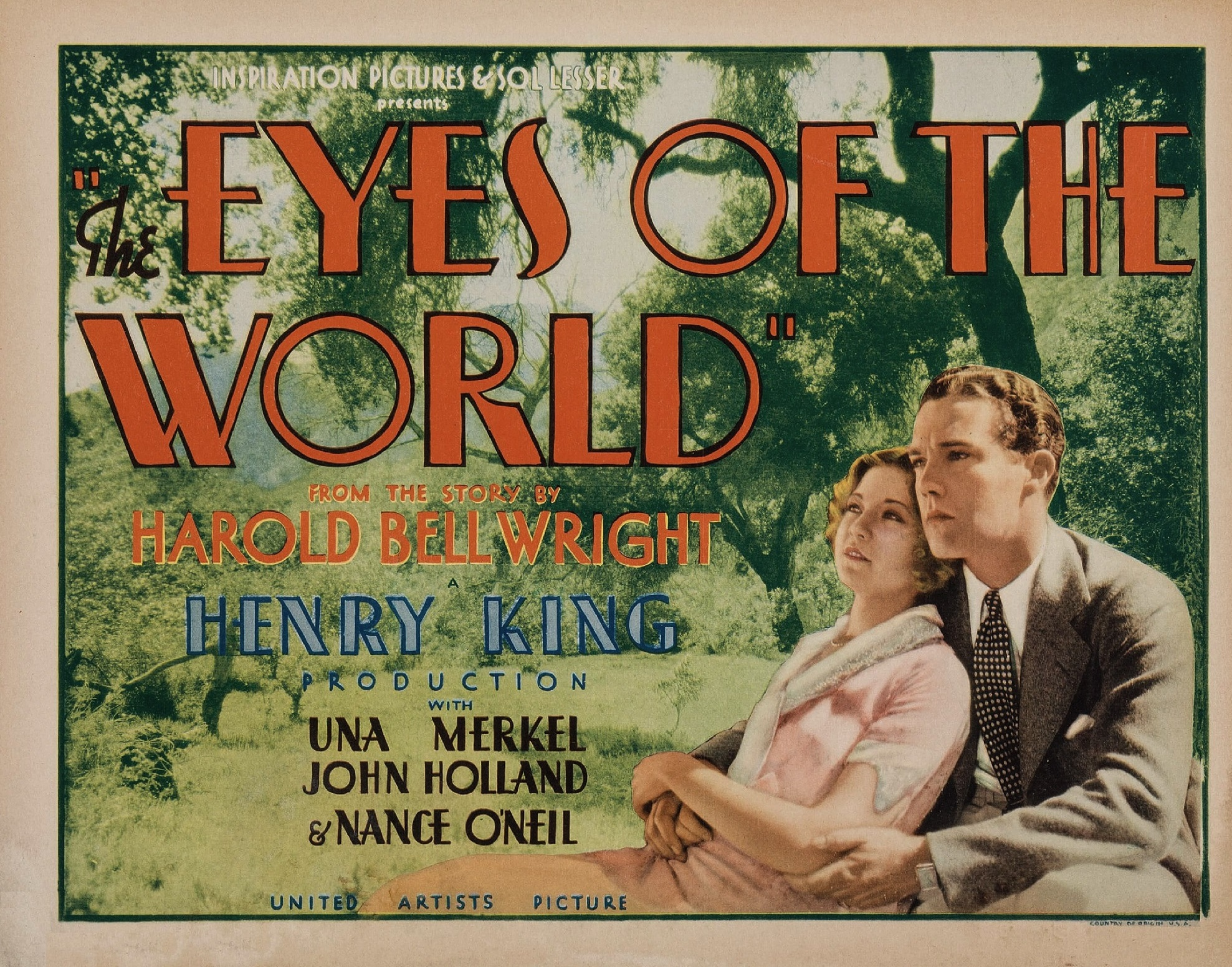 Lobby card for the American drama film The Eyes of the World (1930).